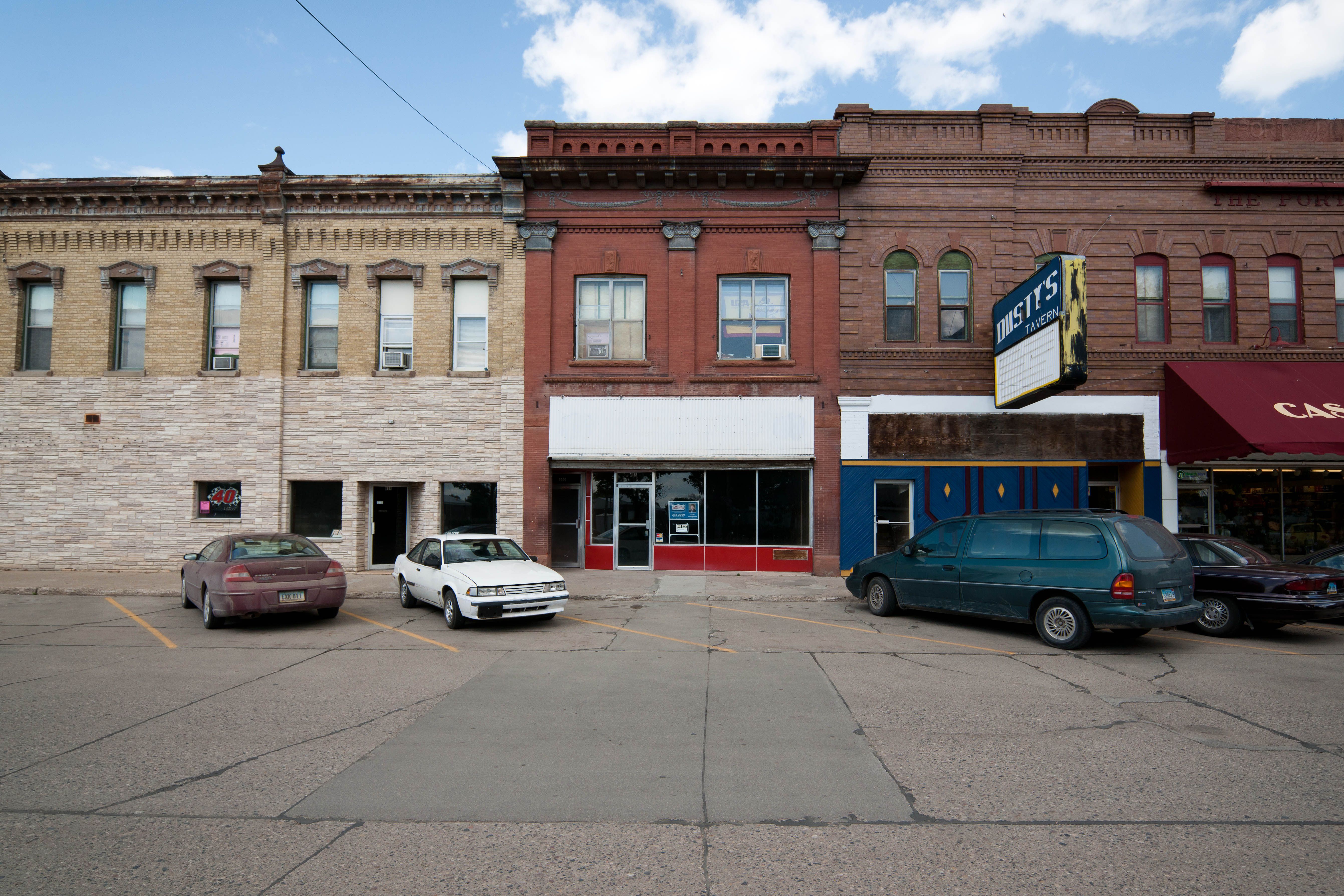 Buildings in the 600 block of Front Street, within the NRHP-listed Casselton Commercial Historic District in Casselton, North Dakota.